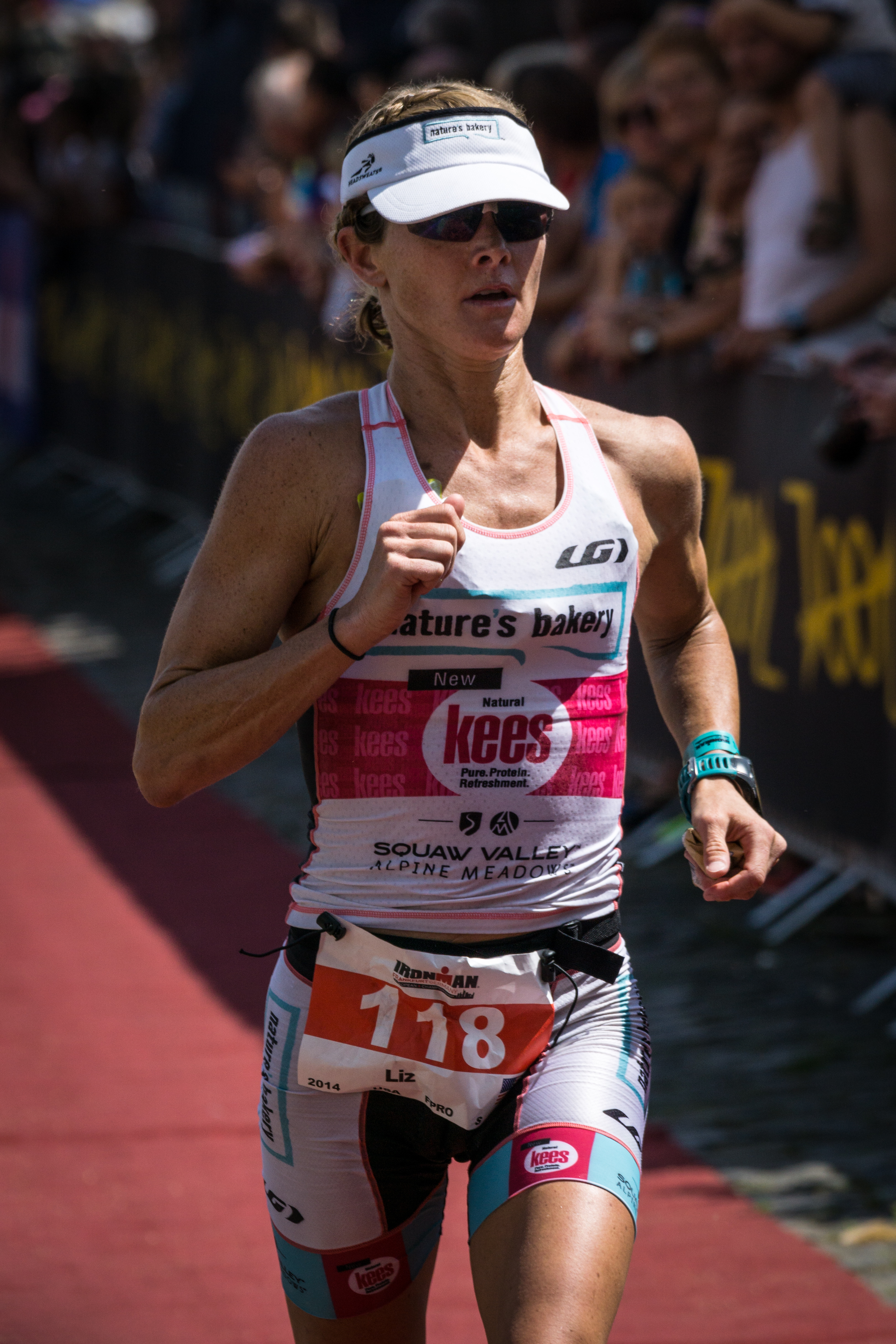 Elizabeth Lyles at the 2014 Ironman European Championship in Frankfurt am Main.